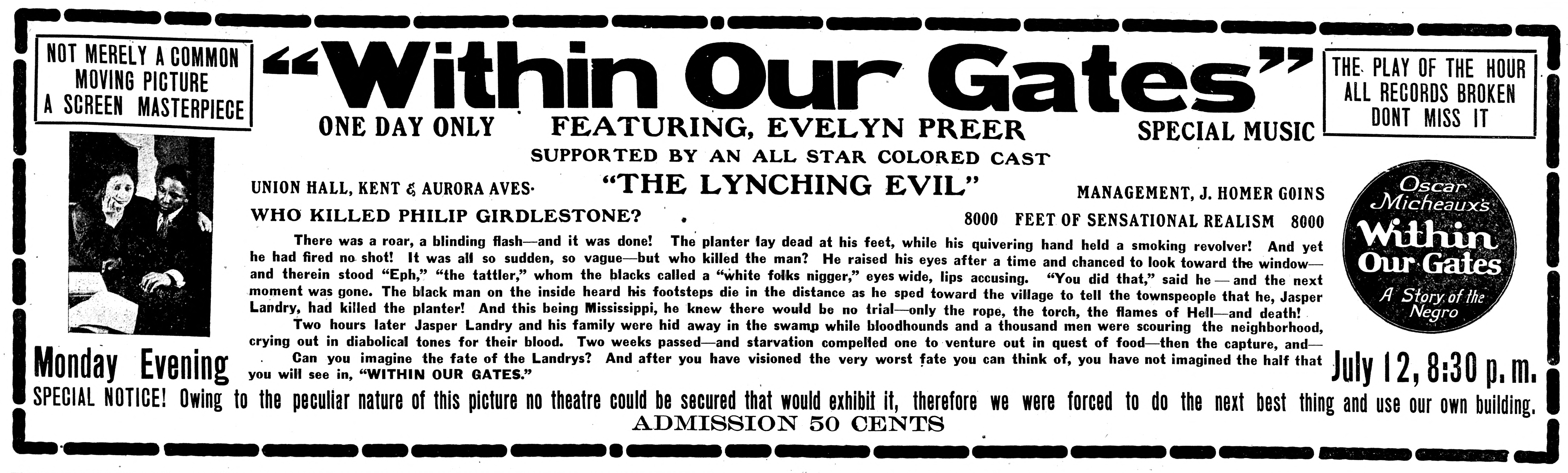 Within Our Gates (1920) is a silent film by the director Oscar Micheaux that portrays the contemporary racial situation in the United States during the early twentieth century, the years of Jim Crow, the revival of the Ku Klux Klan, the Great Migration of blacks to cities of the North and Midwest, and the emergence of the "New Negro". This is a newspaper advert for the film. Of note is the text stating that they could not secure a theater for the film.